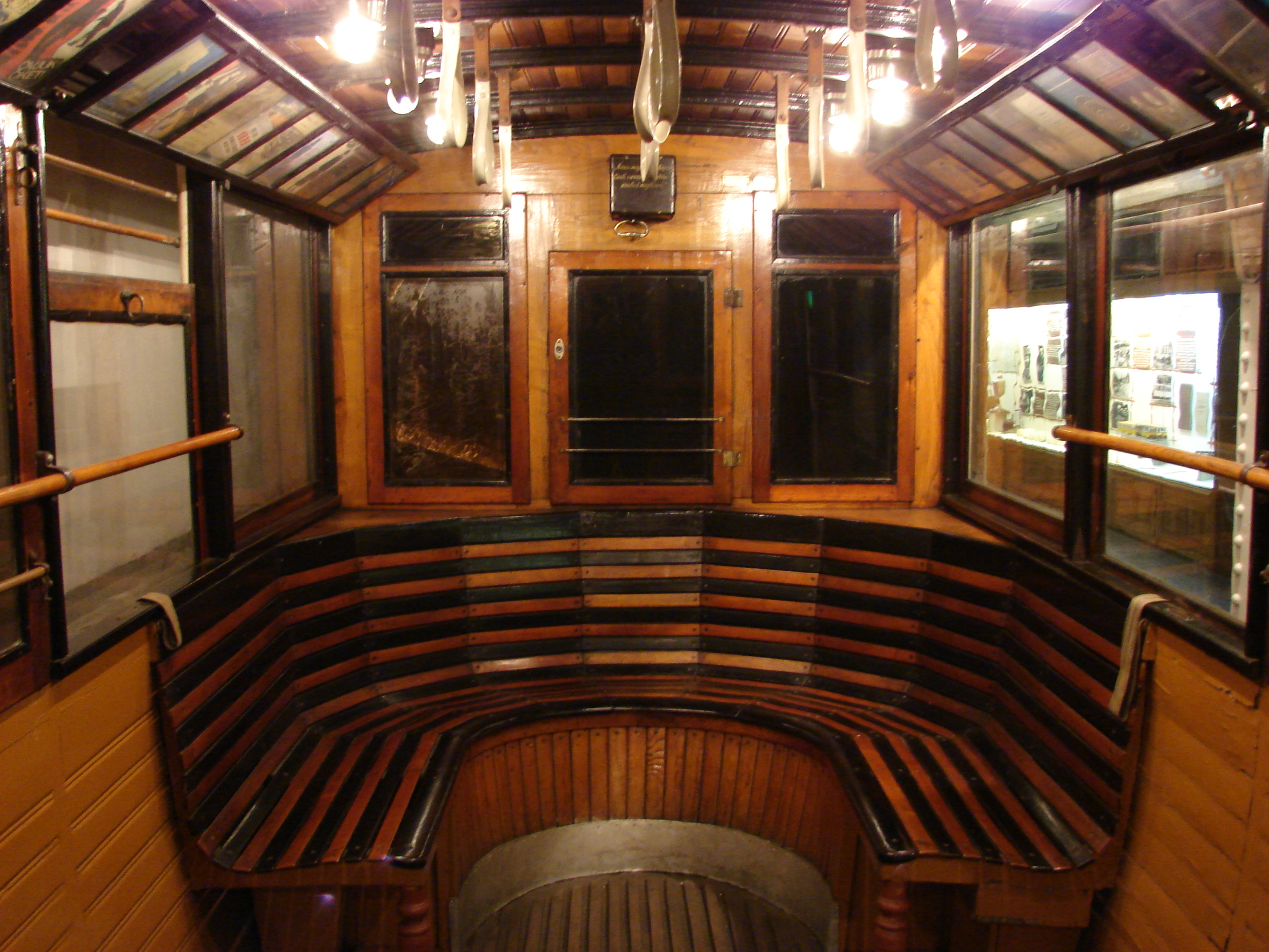 Siemens-Halske, Budapest metro museum